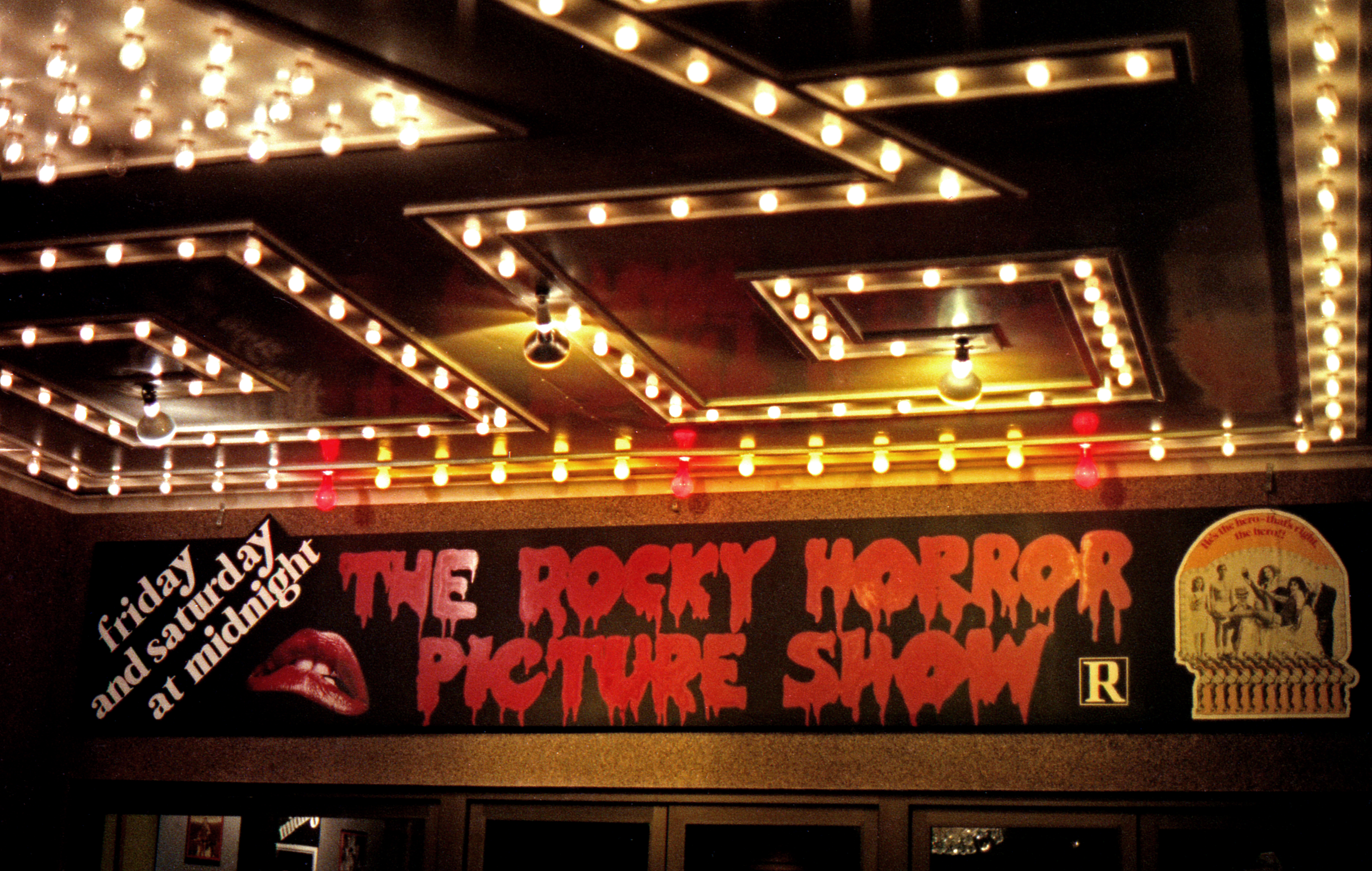 UA Cinema Merced. The Rocky Horror Picture Show, opening night, January of 1978.